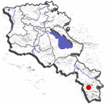 Location map for Kajaran, Armenia.